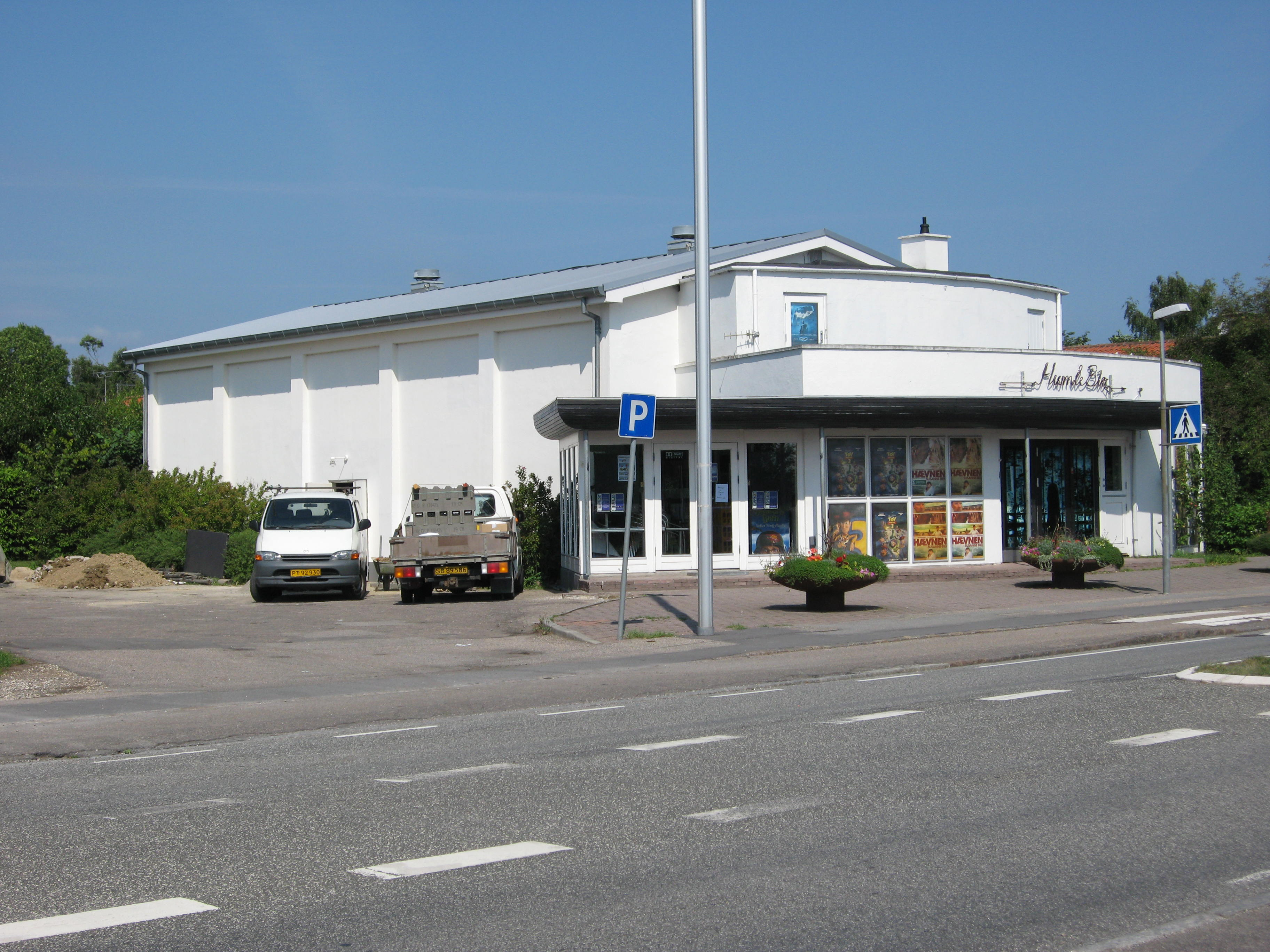 Humle Bio, originally Strandvejsbiografen, cinema/movie theater in Humlebæk, Zealand, Denmark, estd. 1939.